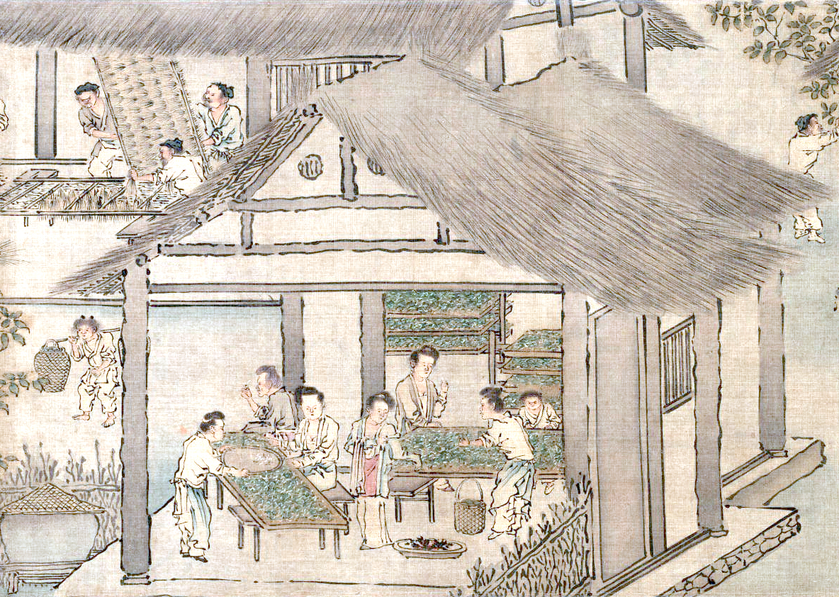 Cropped from Sericulture, The Process of Making Silk (蚕织图), a Chinese Song dynasty painting attributed to Liang Kai (梁楷).